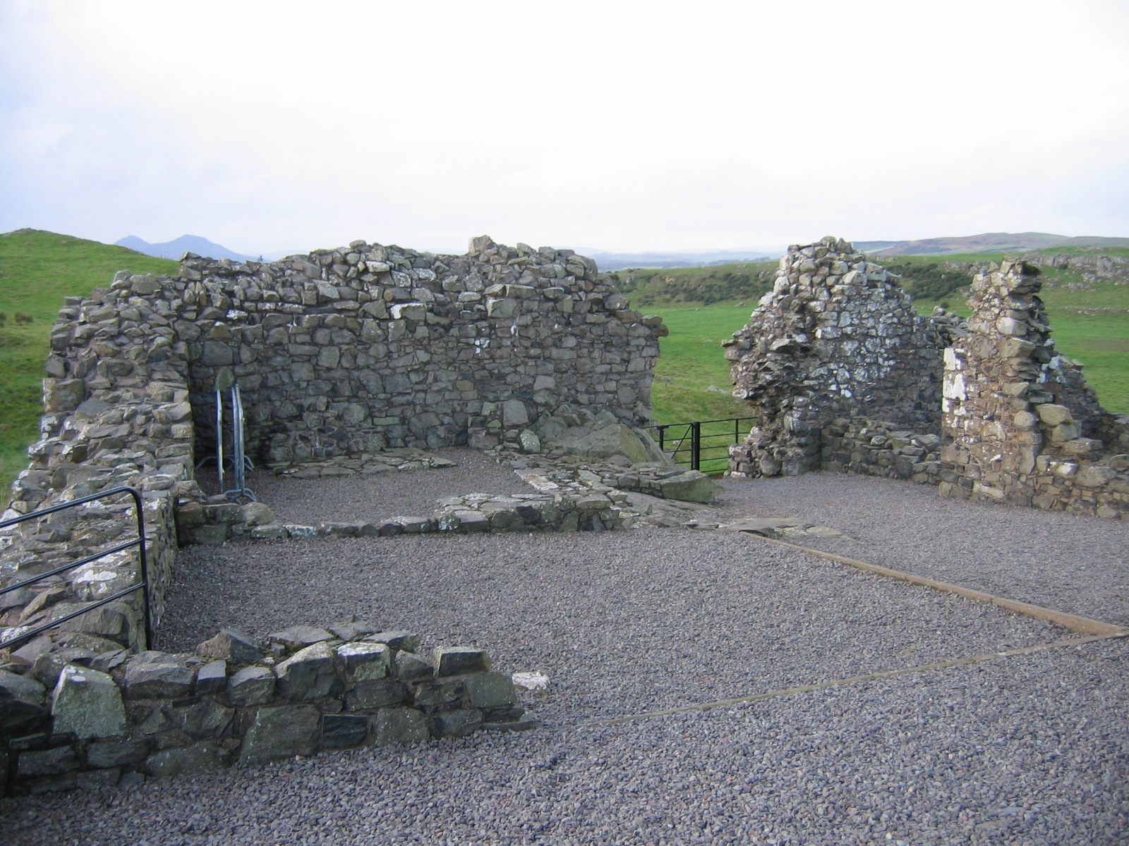 View of the west barmkin courtyard at Smailholm Tower, Scotland.